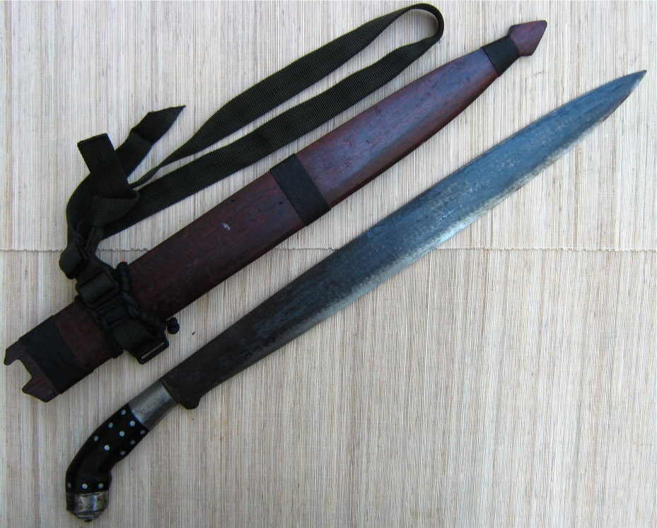 The bolo is a 10-year old heavy utility blade, locally known as dahong palay or dahompalay. As is characteristic of Luzon blades, the tang is peened on the rear part of the hilt. This particular bolo was made in Majayjay, Laguna, by the few remaining bladesmiths in the country. The scabbard is made of a local hardwood called narra. The hilt is made of carabao horn. Overall length: 642 mm (25.3 inches); Blade length: 500 mm (19.7 inches); Maximum blade thickness: 7 mm (1/4 inch) Other uploaded materials by the same author are here: (a) Luzon weapons; (b) Visayan weapons; (c) Moro weapons; and (d) Lumad (non-Moro Mindanao) weapons